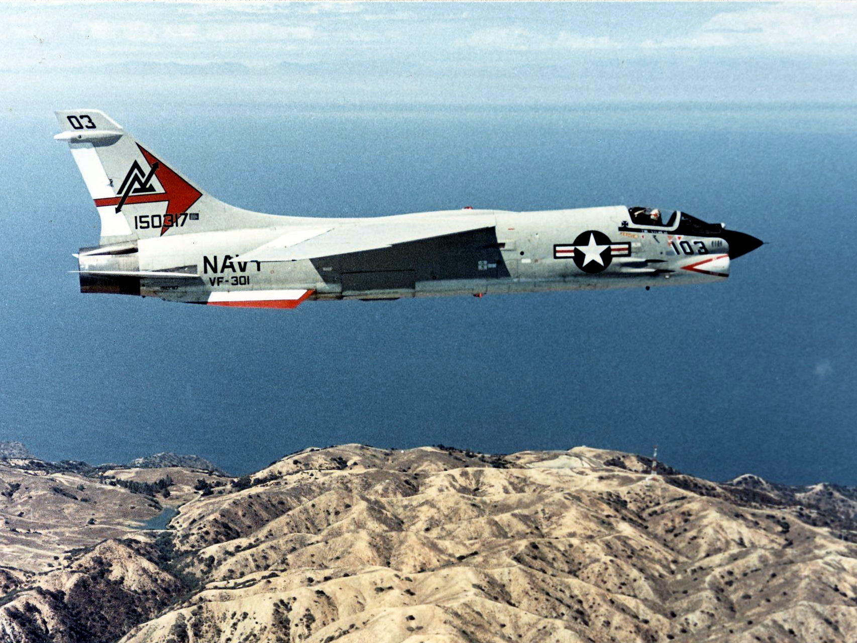 A U.S. Navy Reserve Vought F-8J Crusader (BuNo 150317) of Fighter Squadron VF-301 in flight.